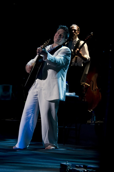 kd lang Hamer Hall, Melbourne, Australia April 2008 See the full gallery here: [1]